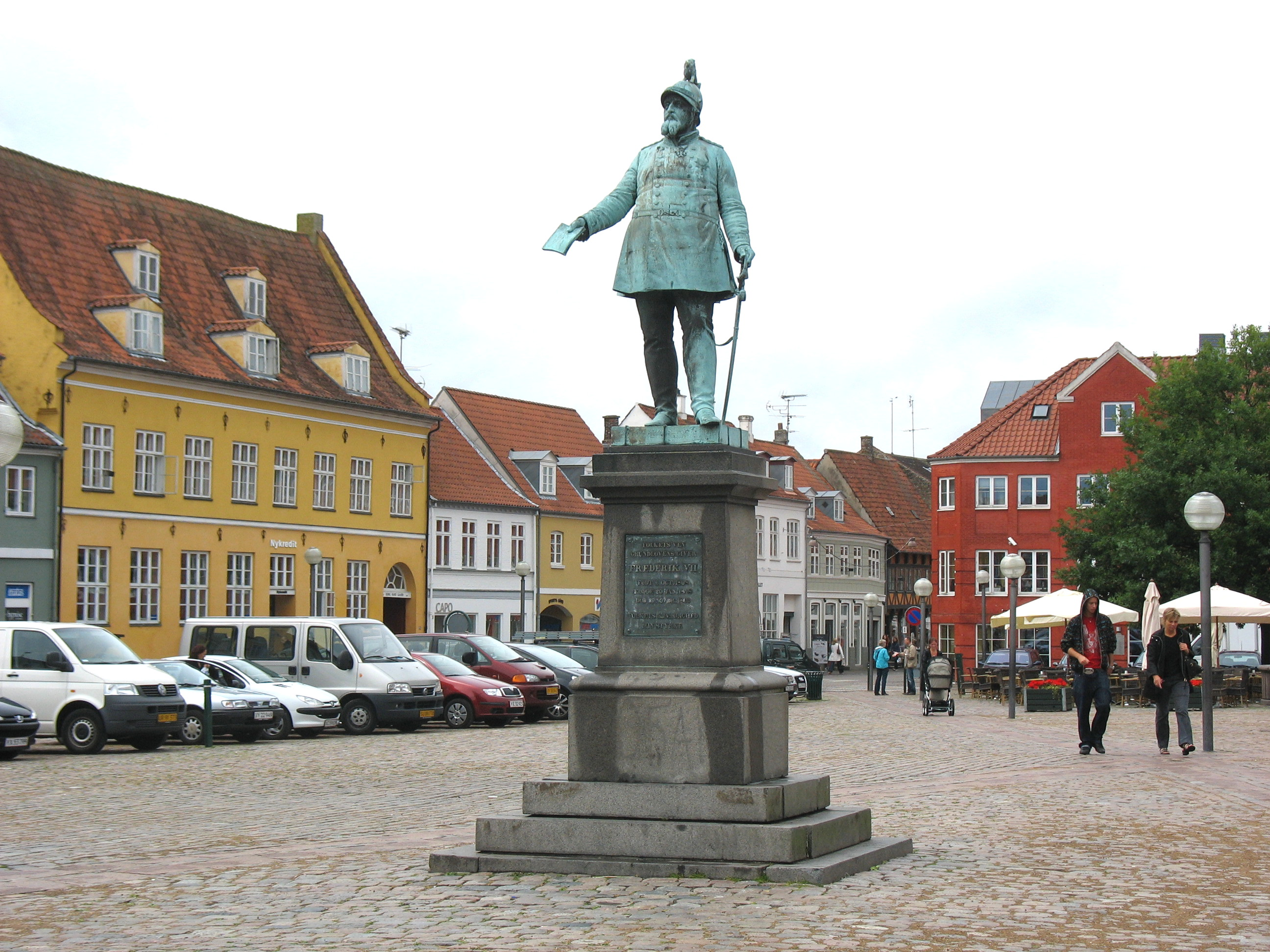 Statue of the Danish King "Frederik VII of Denmark" at the square "Torvet" in the town "Køge". The town is located in East Zealand in east Denmark. Statue by H.W. Bissen